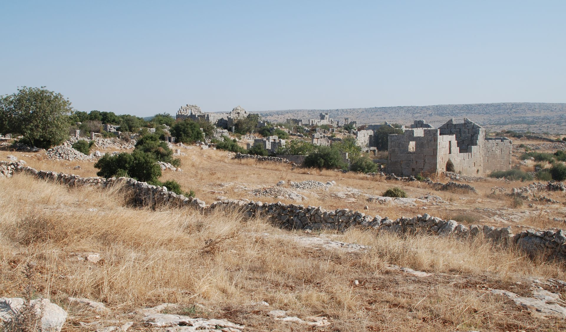 Refade, dead city near Church of Saint Simeon Stylites, Syria, from east